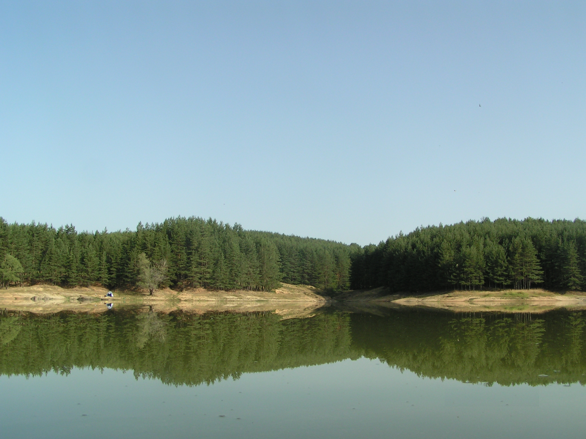 Svezhen Dam